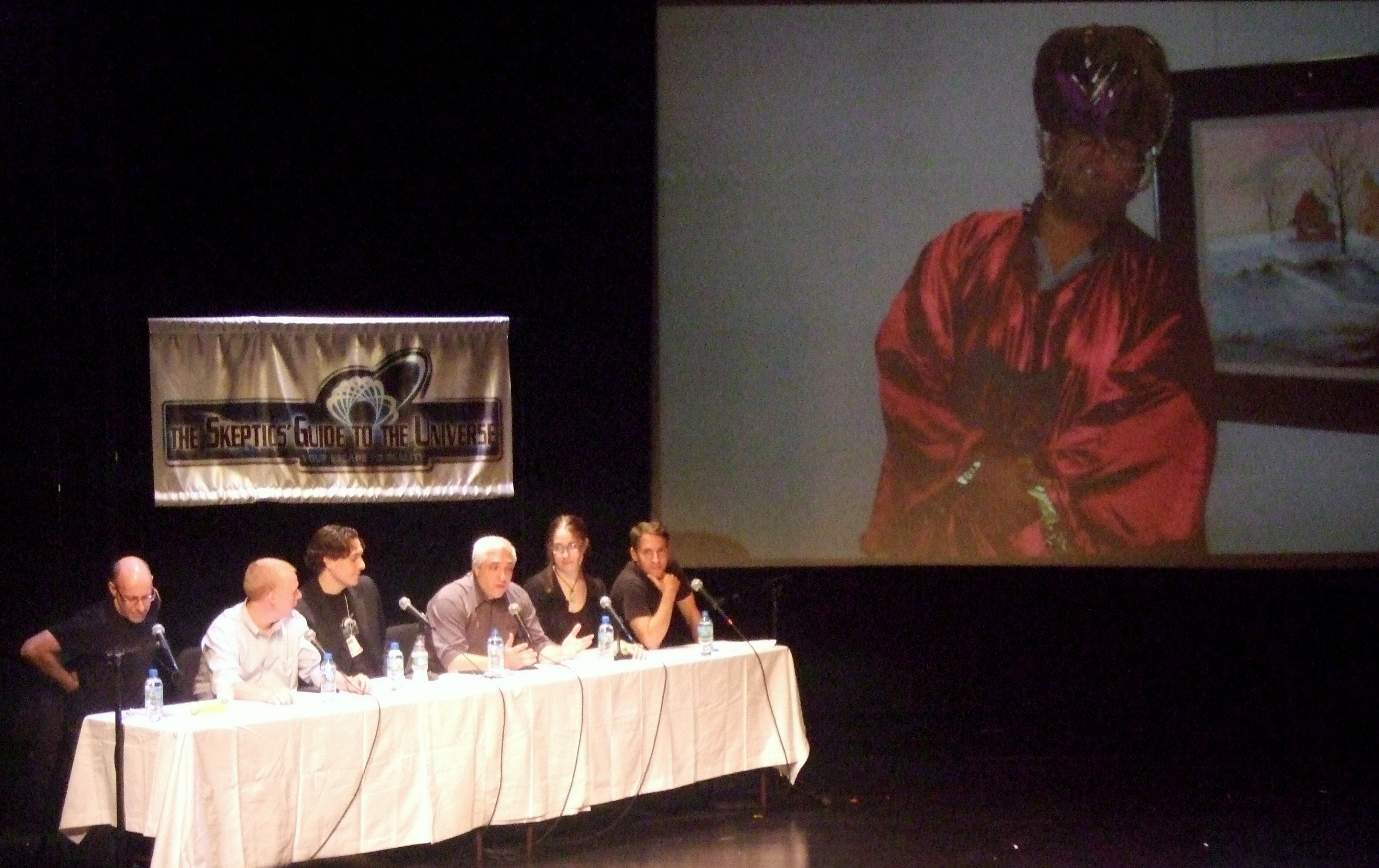 Richard Wiseman joined the panel as Dr. Novella explained how this event was in part inspired as a way to pay tribute to former SGU panelist Perry DeAngelis, who died in 2007.